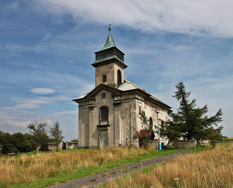 Church of the Assumptionin in Cínovec (Czech Republic).